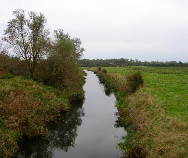 Glynde Reach A tributary of the Ouse that rises in the Laughton Levels and joins the Ouse south west of Beddingham.